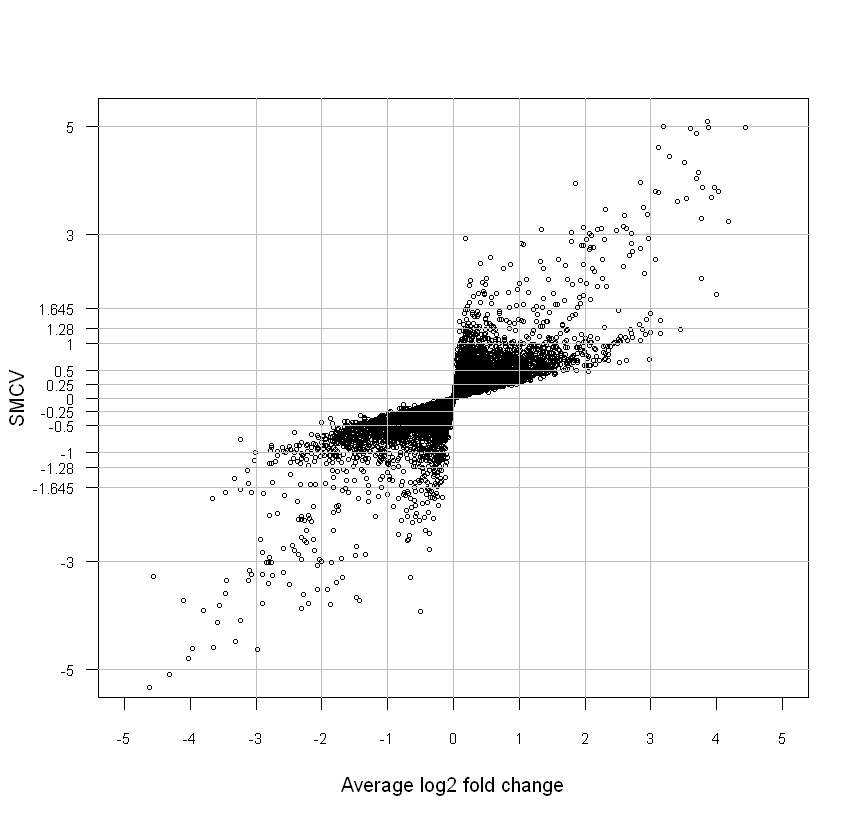 Dual flashlight plot example